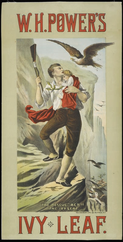 Poster for W. H. Power's, touring production of The Ivy Leaf, play after Con T. Murphy, ca. 1900. This Irish-American play was in the repertoire of American theaters from the 1880s to about 1904. The poster shows a scene from the 2nd act, which has been adapted for Edwin S. Porters film melodrama Rescued From an Eagle's Nest, Edison Studios, 1908